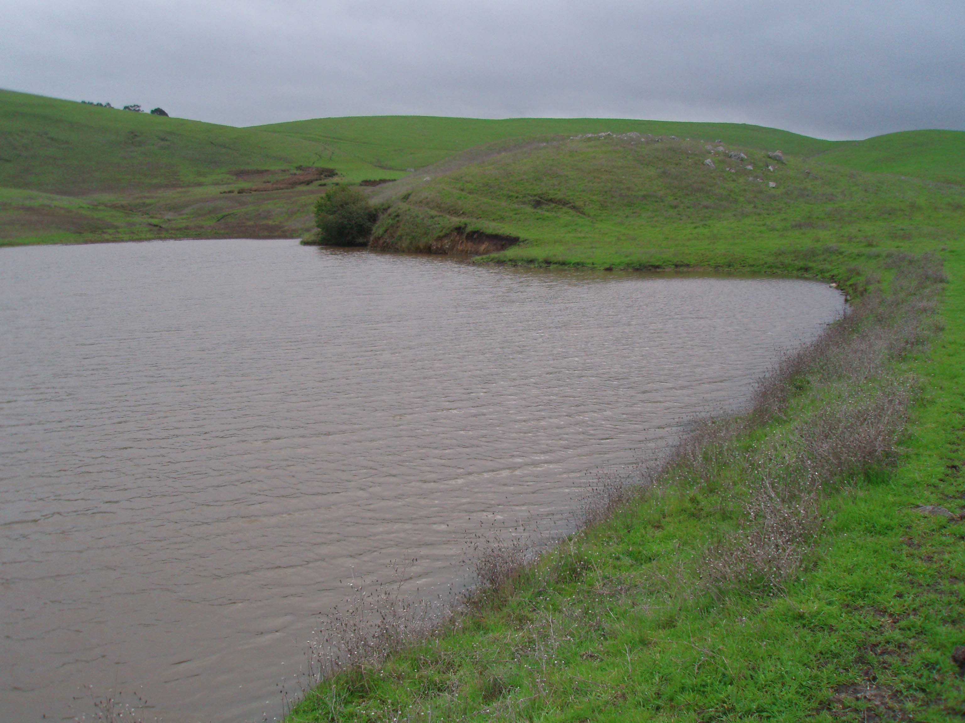 Upper pond on the former cardoza ranch, now part of tolay lake regional park, sonoma county, calif, USA